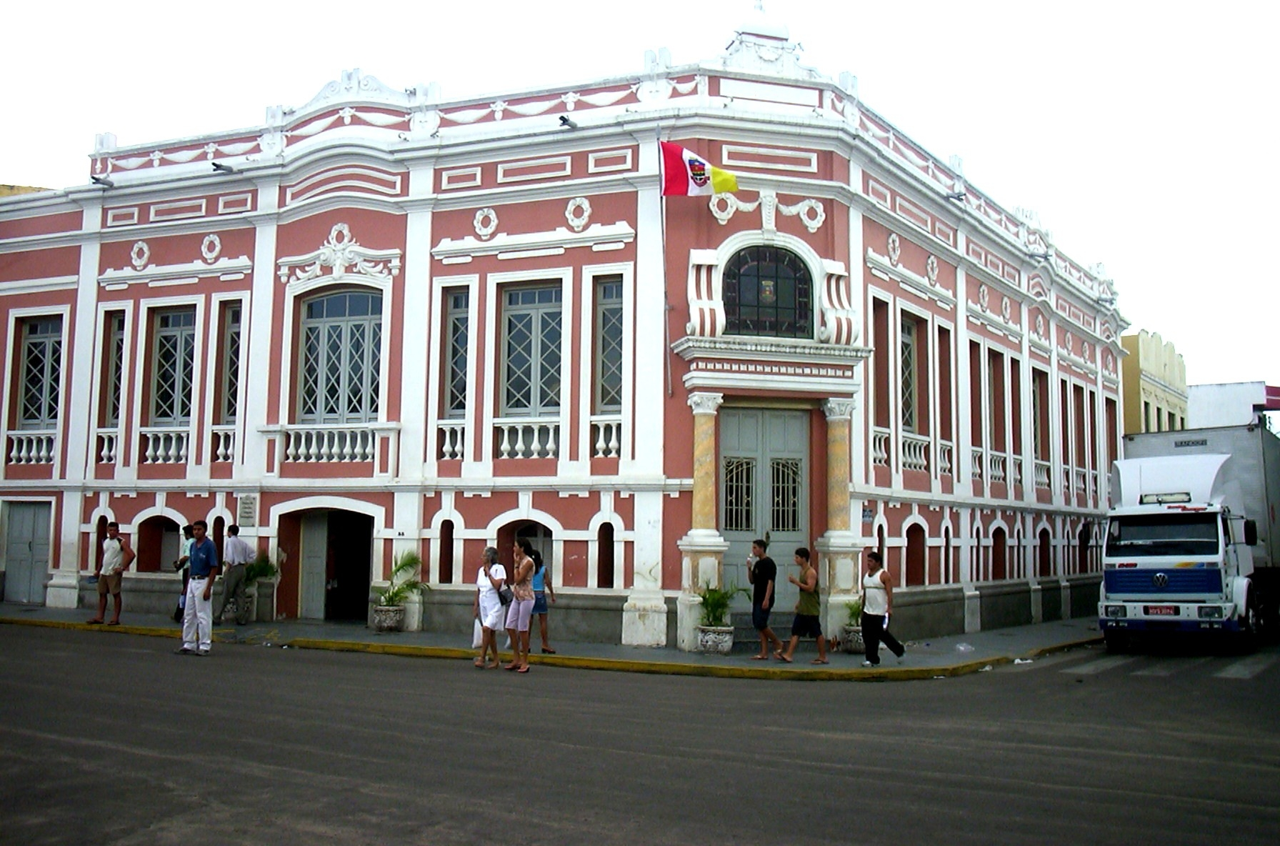 A historical building in the city of Sobral, state of Ceará, Brazil. Presently it is a public educational center (idioms and computing). Author: Renato M.E. Sabbatini, February 2003.